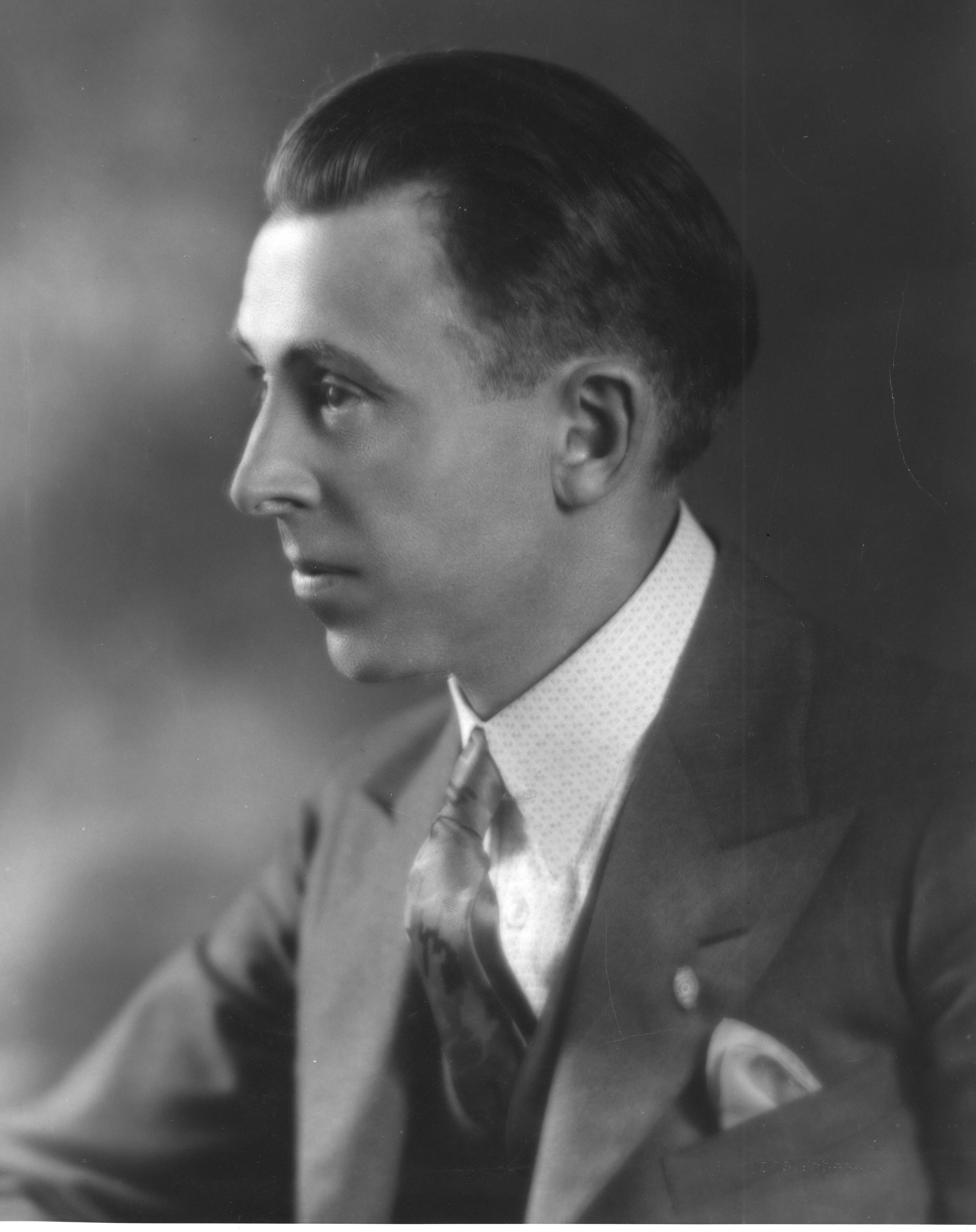 This is a portrait passed down through my family of Roy L. Donley.